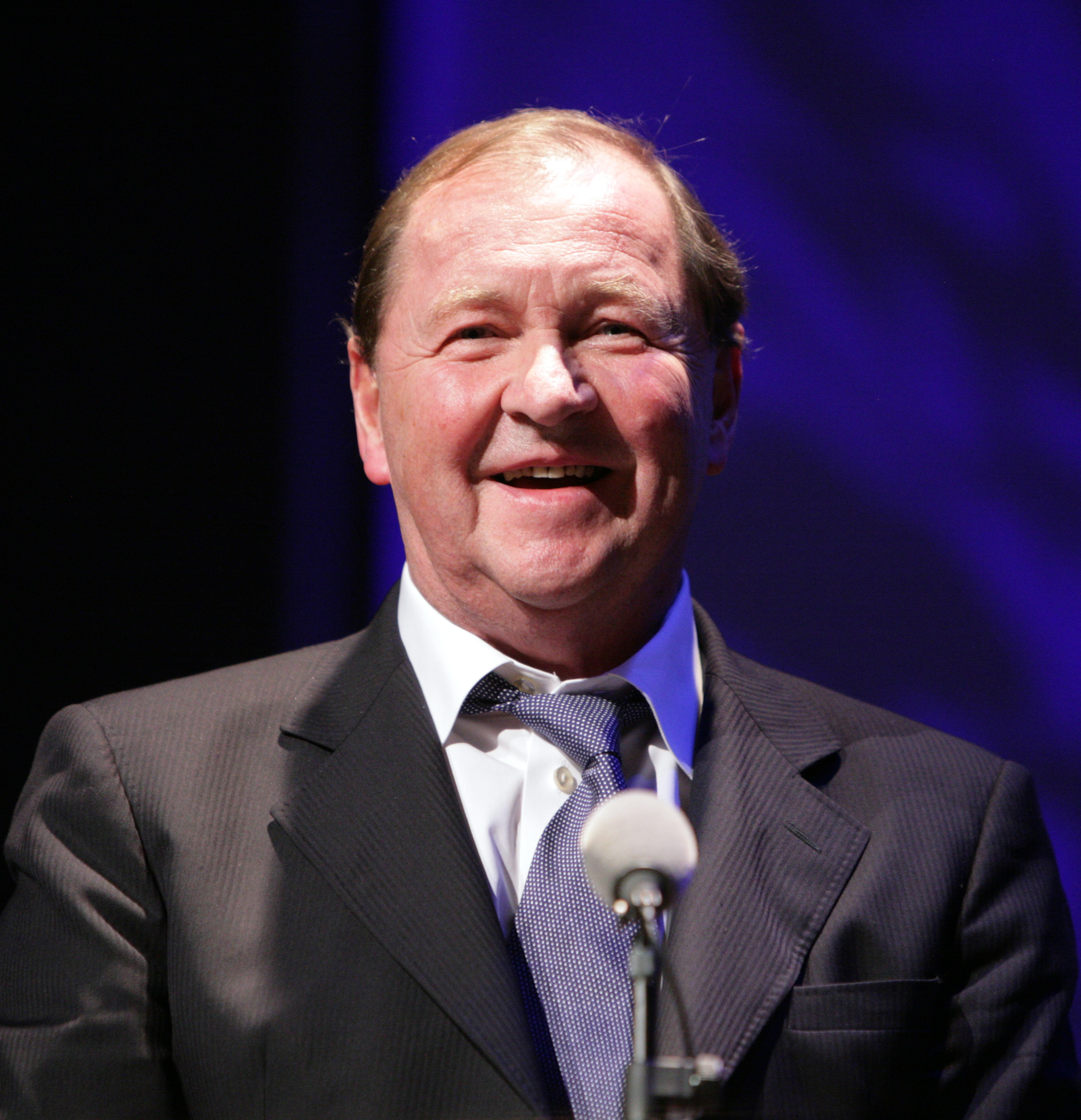 Roy Andersson vinnare av Nordiska rådets filmpris 2008. Prisutdelningen i Helsingfors 2008-10-28 Keywords: Film Prize